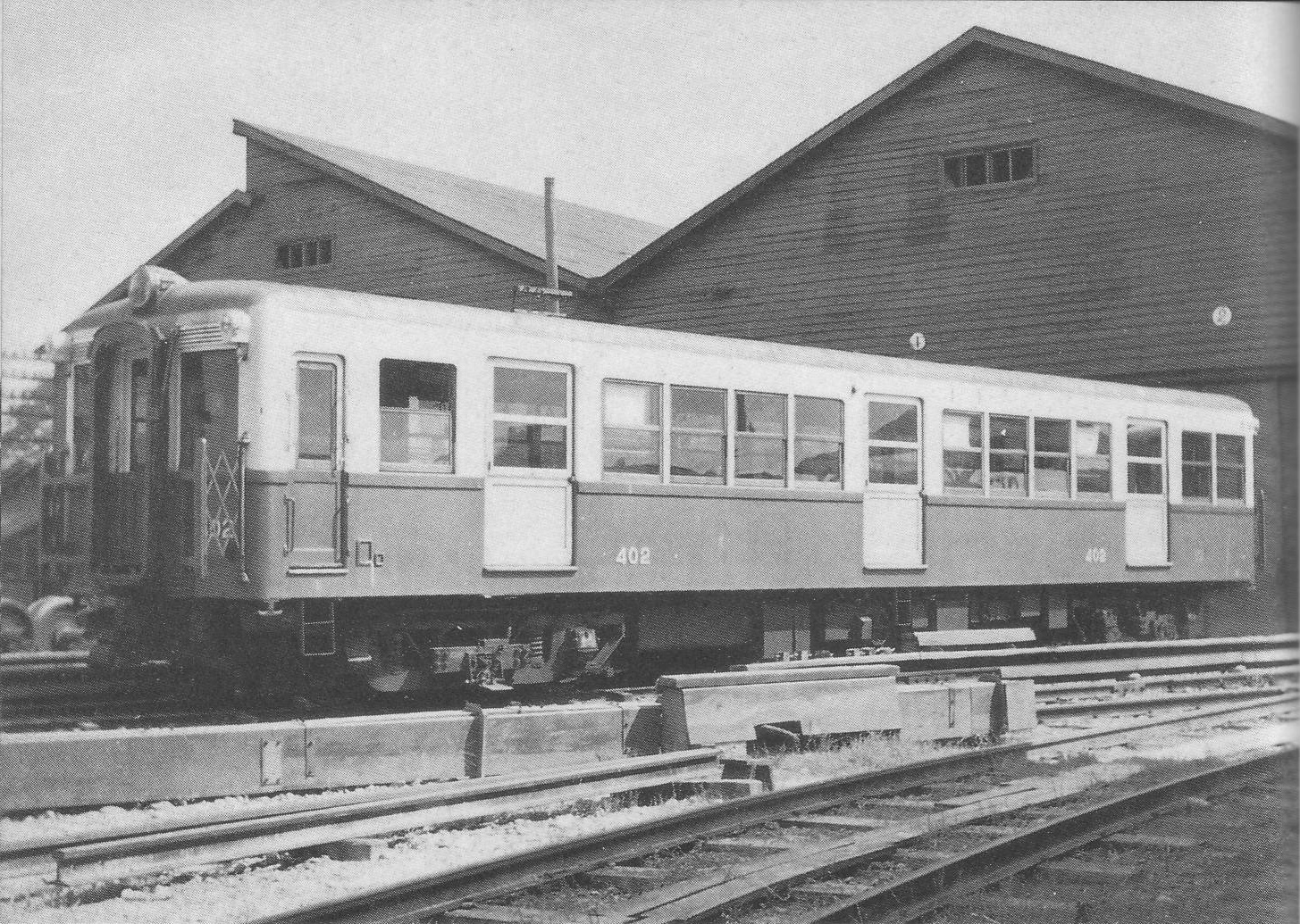 Osaka Municipal Subway #402. Shooting earlier than 1954.